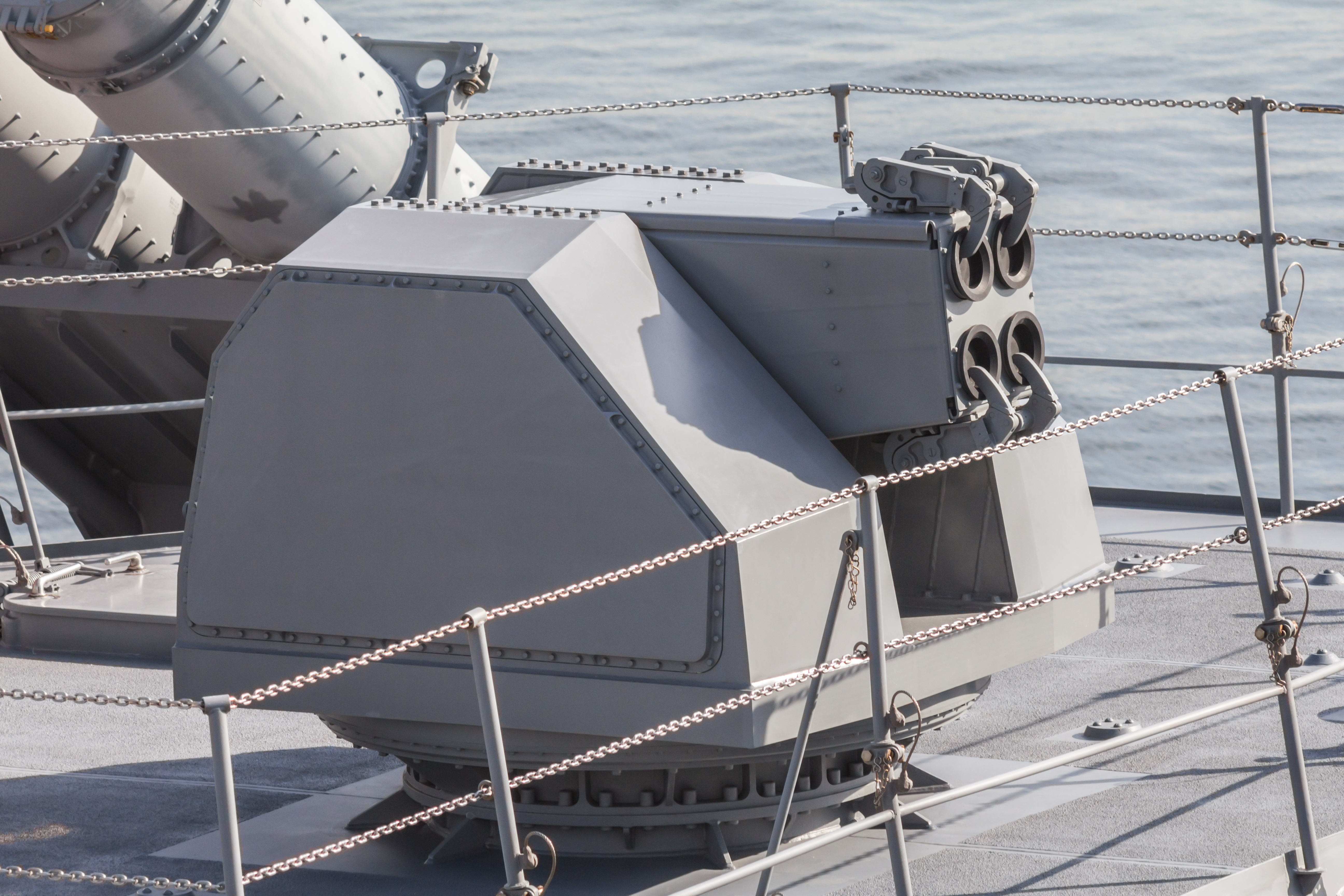 Floating Acoustic Jammer on JDS DD-116 Teruzuki at Harumi-pier, Tokyo (2013 Dec 1) Canon EOS 60D